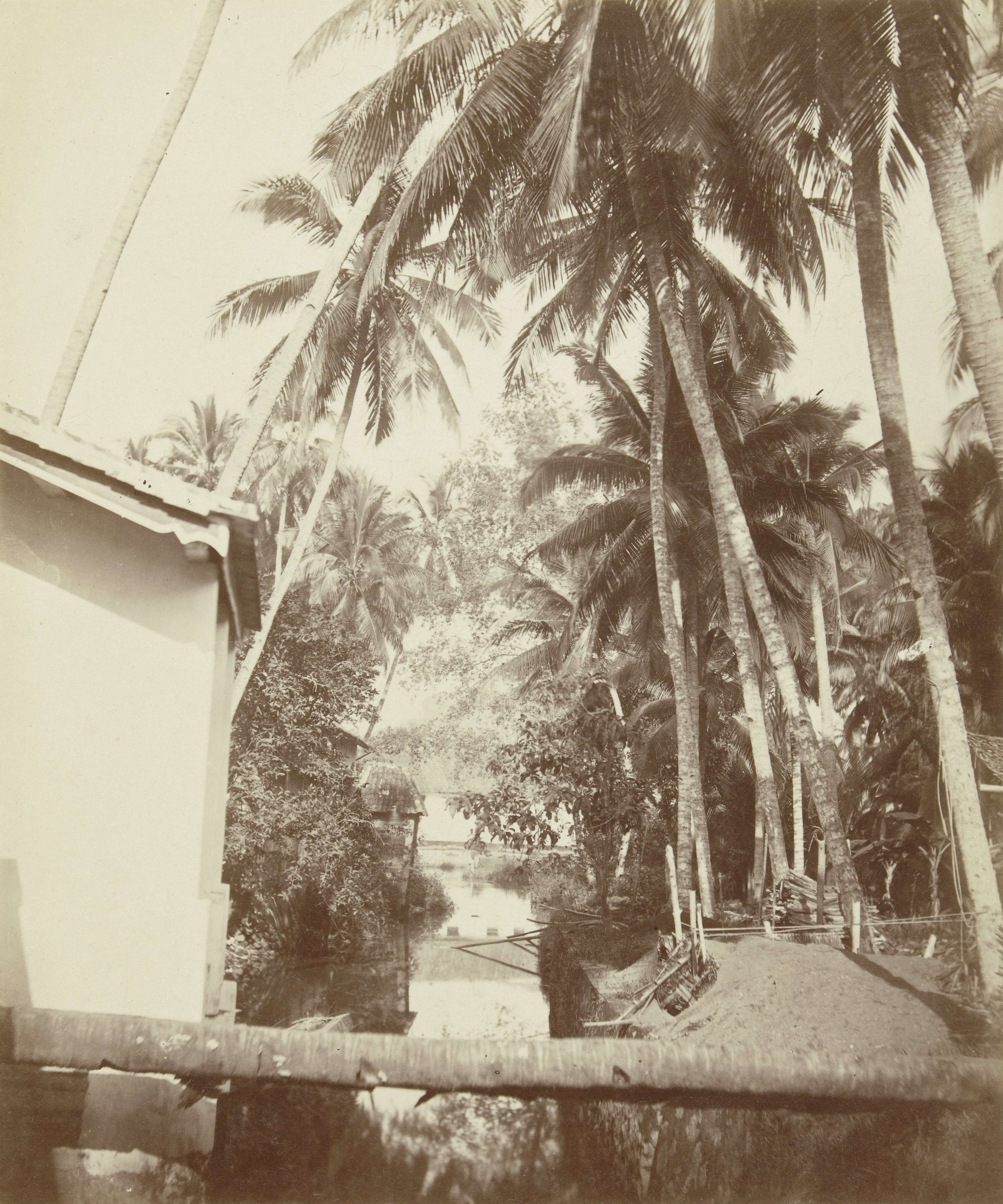 Photograph of Kali Mati, 1864-1870, by Jacobus Anthonie Meessen.